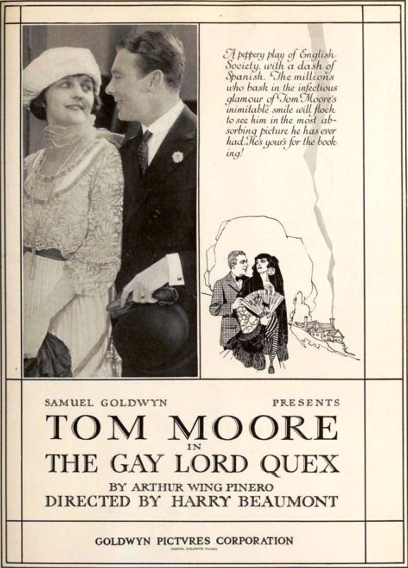 Advertisement for the American drama film The Gay Lord Quex (1919) with Gloria Hope and Tom Moore, on page 99 (inside back cover) of the December 20, 1919 Exhibitors Herald.